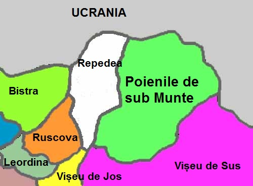 situation map of poienile